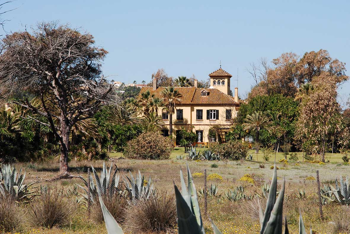 Villa in Churriana, Málaga, Spain.